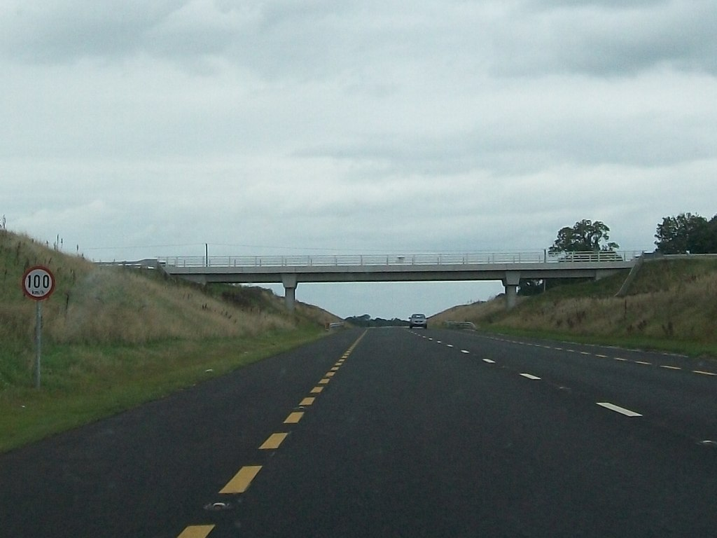 Minor road crossing a new section of the N52 at Carrickhill